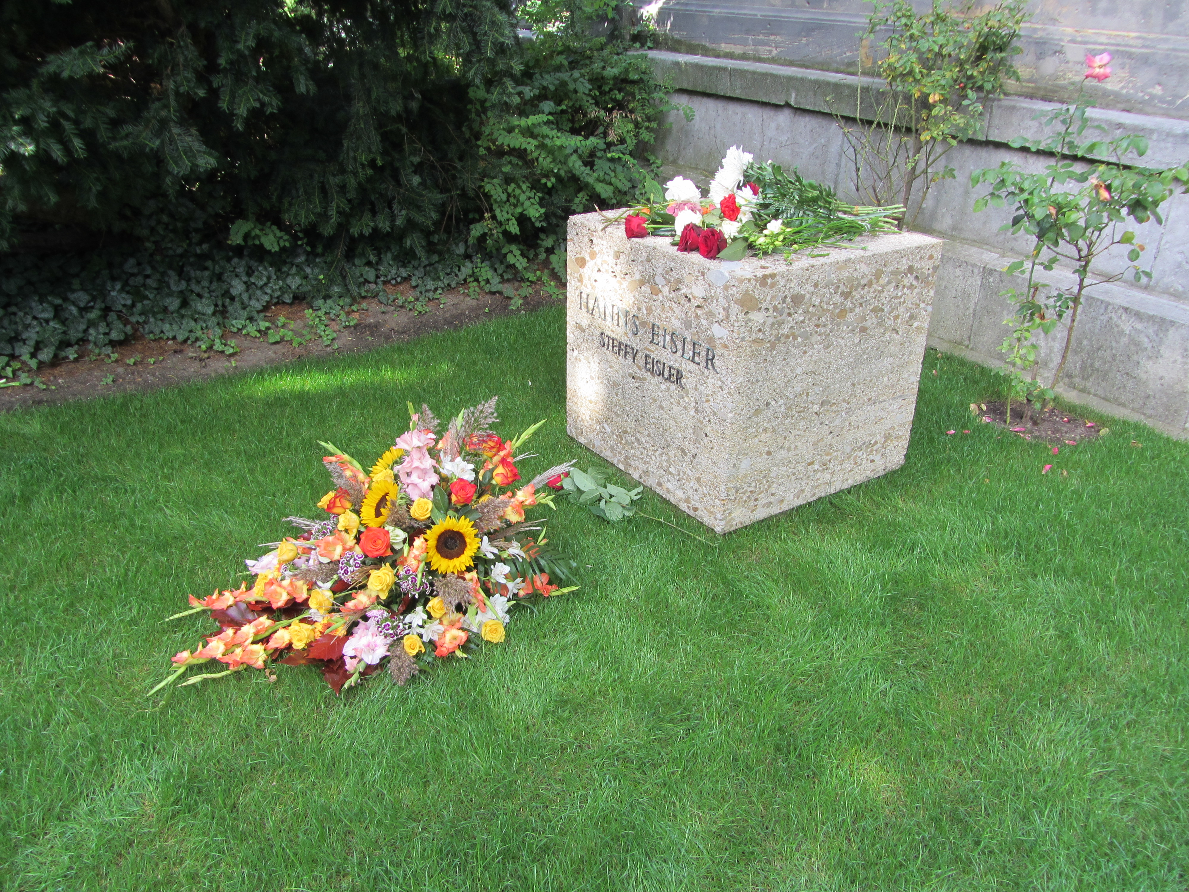 "Flowers for Hanns Eisler" on the grave of composer Hanns Eisler, on occasion of his 50th deathday. Located at Dorotheenstädtischer Friedhof in Berlin. (geo-coordinatas approximative)